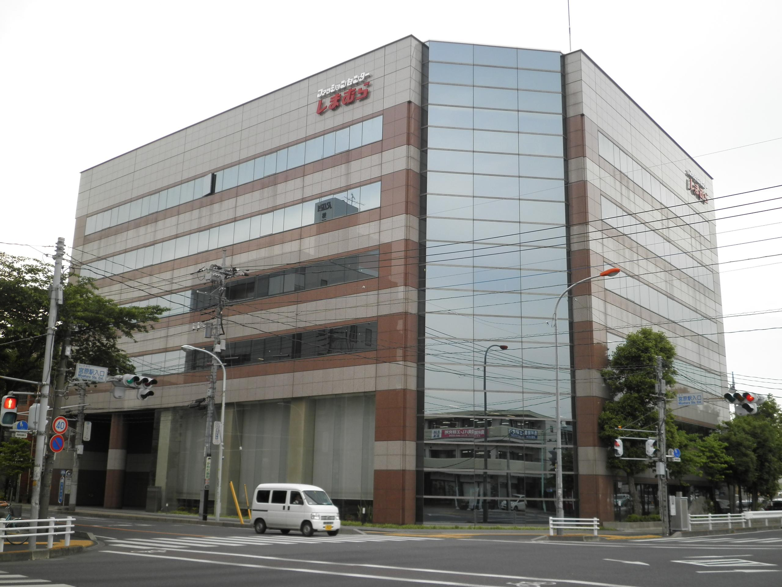 Shimamura Co.,Ltd. Headquarters in Saitama, Japan.